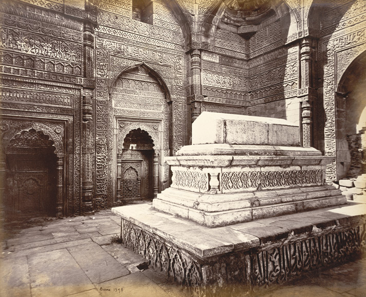 Iltutmish Tomb in Delhi 1860